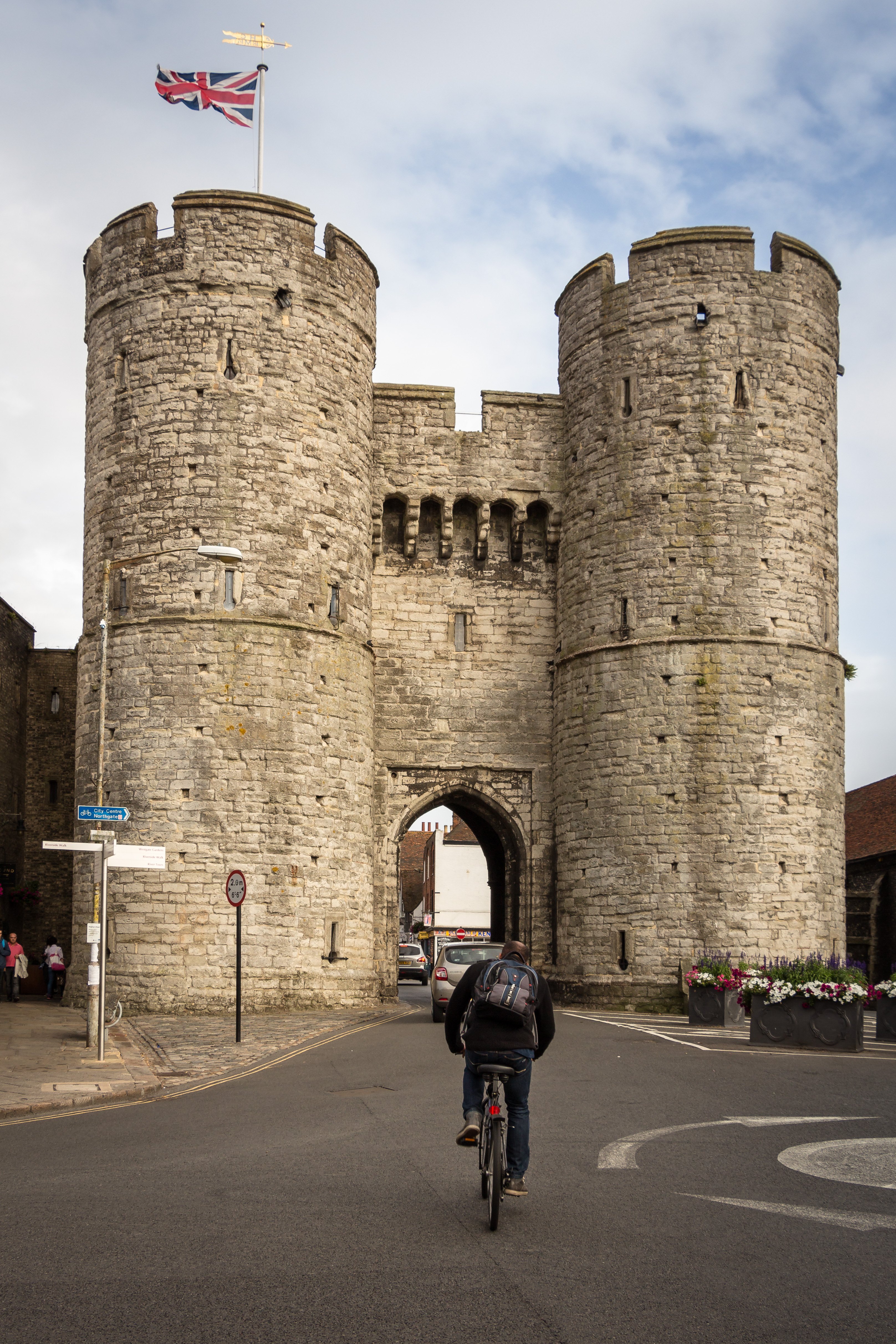 A cyclist goes into Westgate, the largest surviving city gate in England.